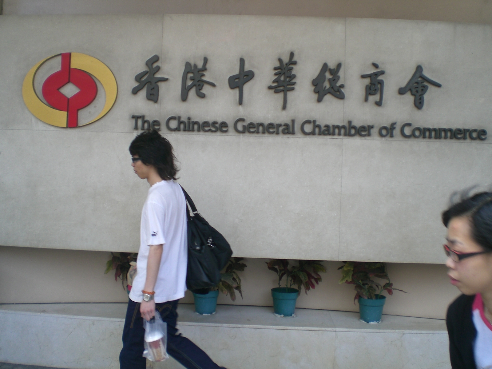 Author= User:Kwanyatsw 香港中華總商會 (英文: The Chinese General Chamber of Commerce).